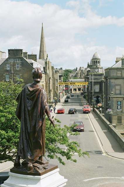 Wick, Bridge Street